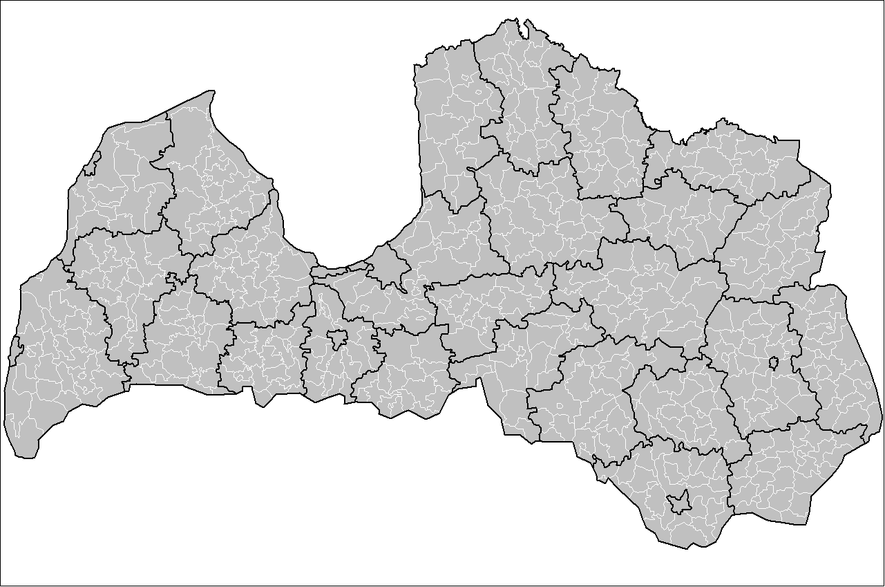 Map of the local governments of Latvia. Created by Rarelibra 18:15, 30 May 2007 (UTC) for public domain use, using MapInfo Professional v8.5 and various mapping resources.